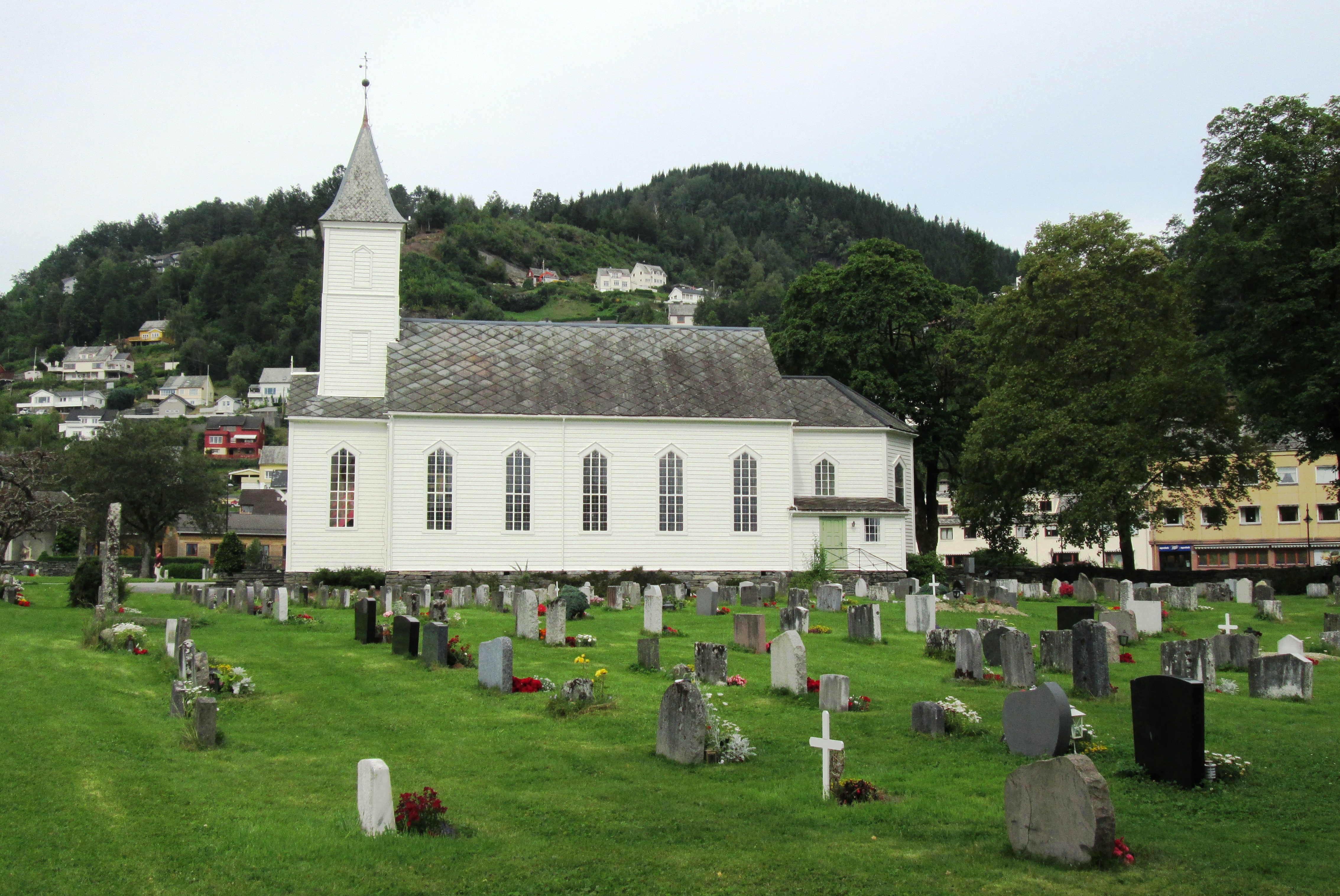 Church in Oystese, Norway 1